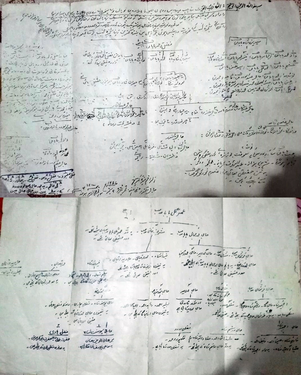 Family tree of Khwajgan (Khwaja Khel) of Swat page-1 & 2